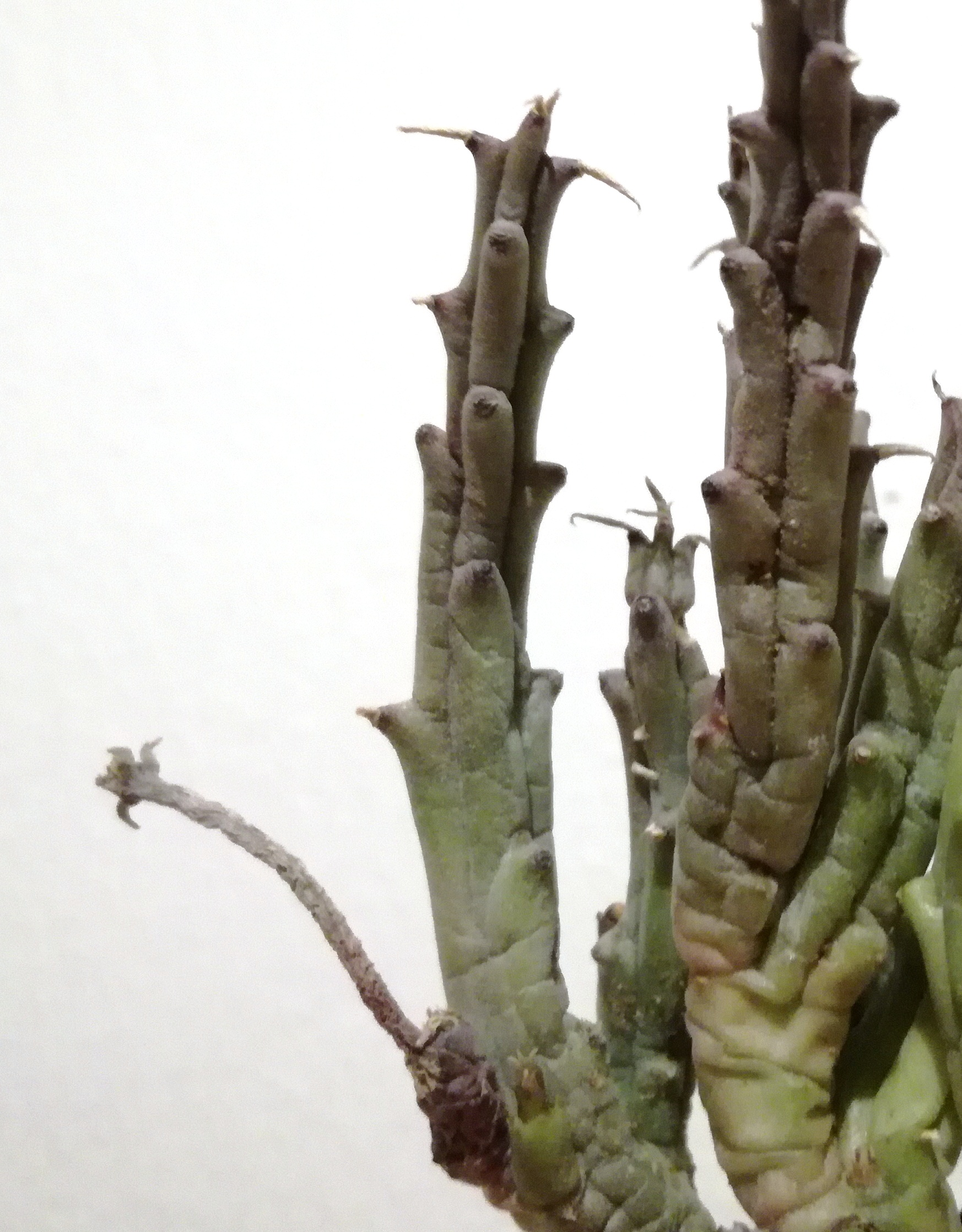 Tridentea gemmiflora stems - Barrydale